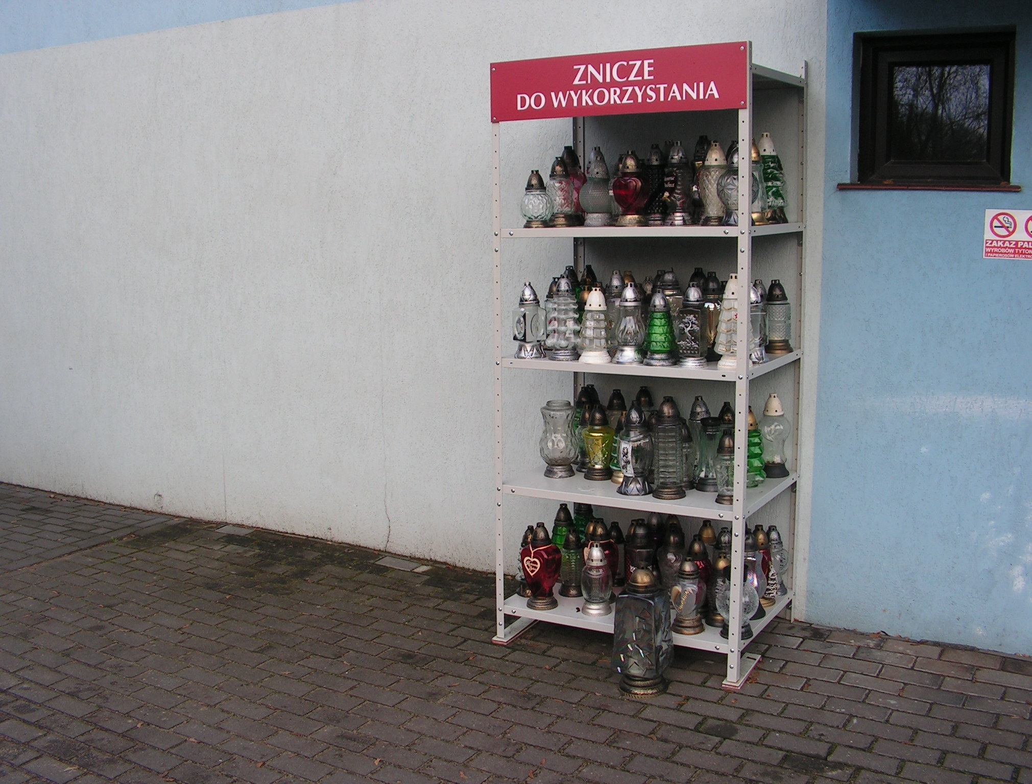 Shelf for saving an used snitches for their again using on Communal Cemetery in Włocławek.